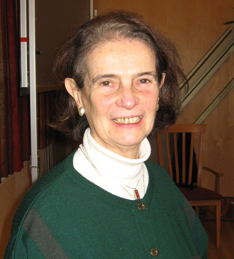 Photograph taken by me February 2008